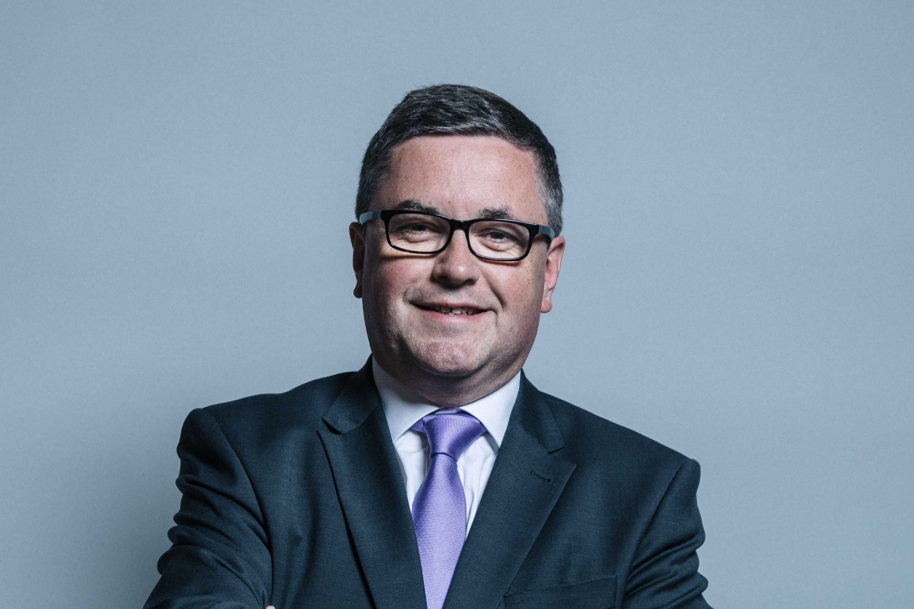 Official portrait of Robert Buckland